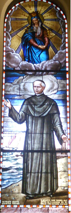 San Paolino in Viareggio at St. Andrew